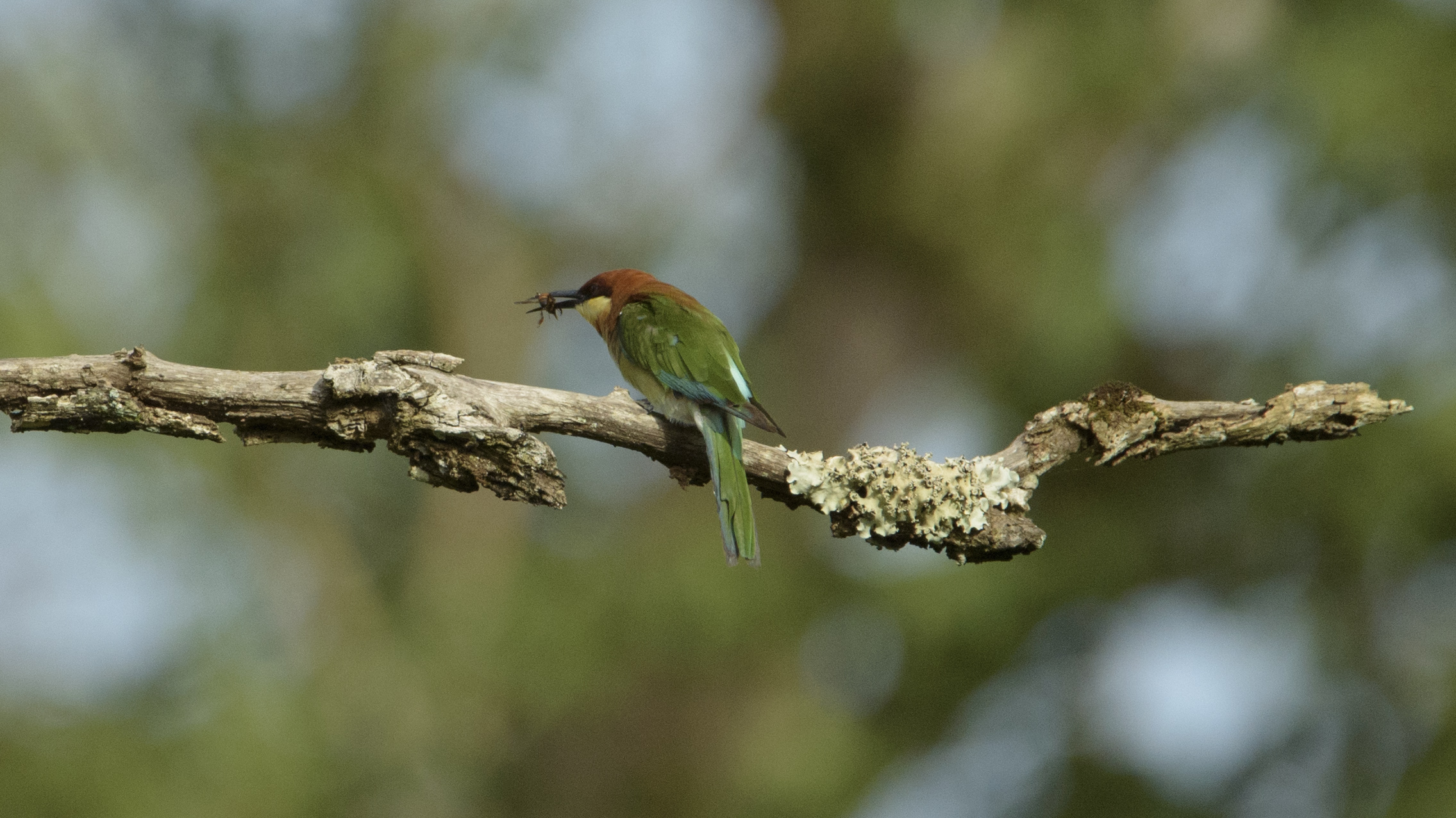 A bee-eater feating on a bee in Bandipur National Park, Karnataka